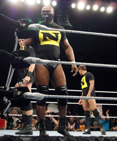 Michael Tarver (center), Wade Barrett (left) and Justin Gabriel (right) as part of the Nexus